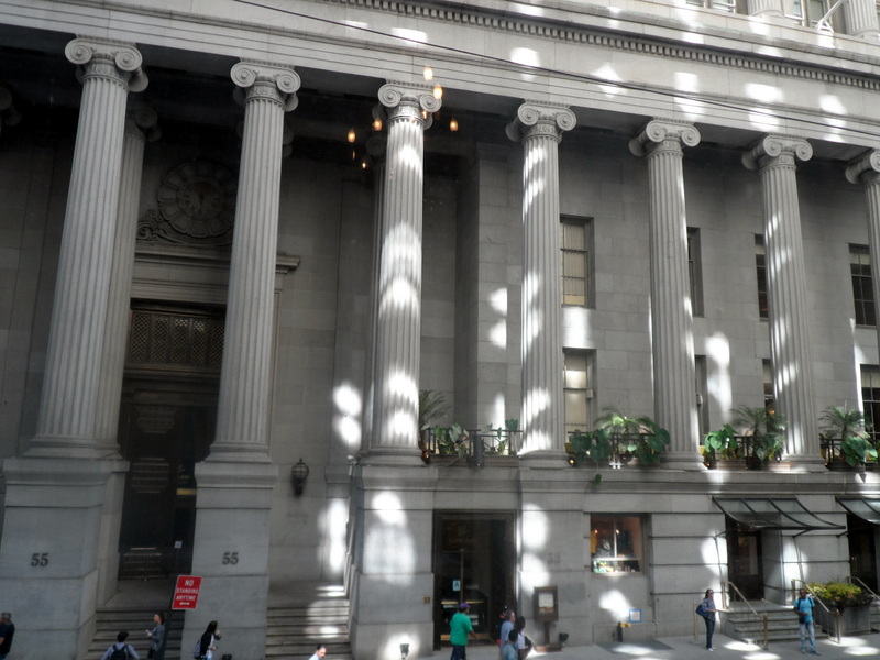 First National City Bank